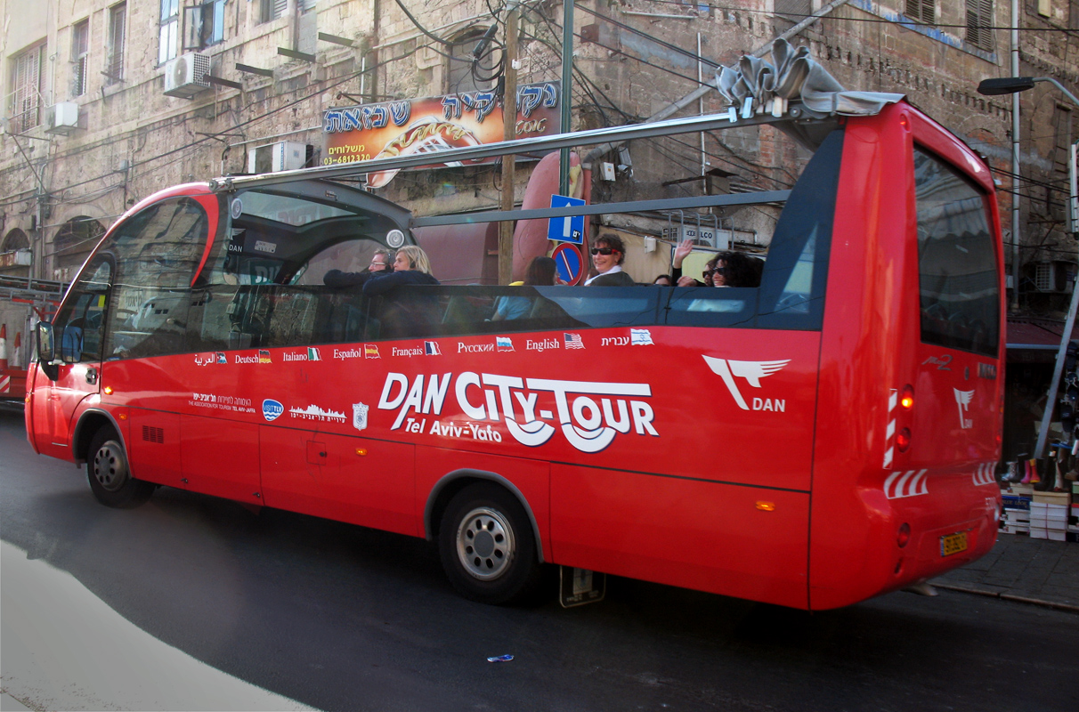 Dan City Tour, a tourist bus by the Dan Bus Company in Tel Aviv-Jaffa. The bus on the picture is passing Yefet St. in Jaffa (corner of Olei Zion street, looking towards south-west).